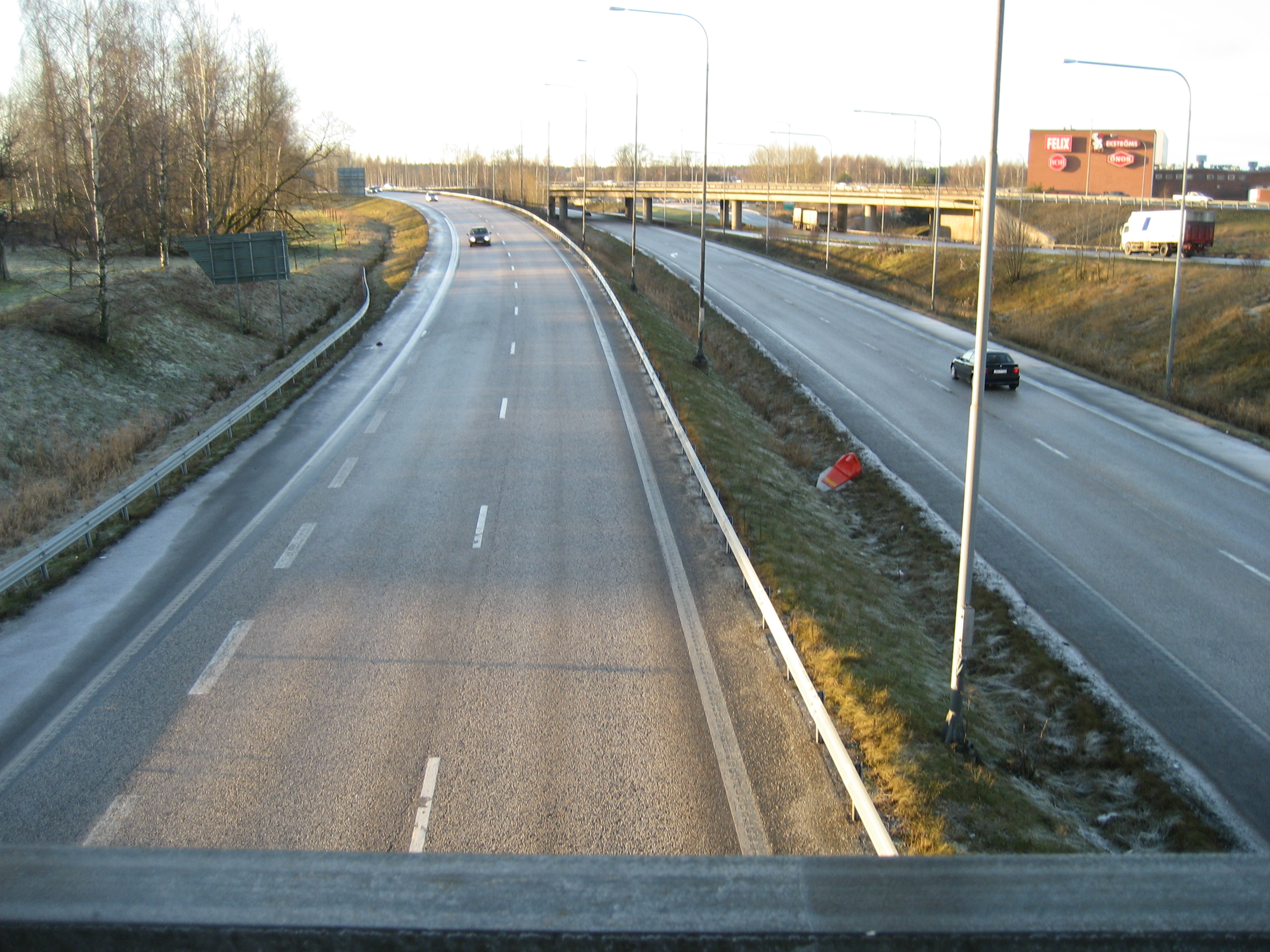 Aspholmen/Bista Motorway junction on E18/E20 in Örebro, Sweden